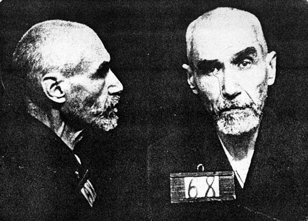 Portrait of Hrygoryi Levytskiy, Ukrainian botanist and geneticist. Prisoner in 1941